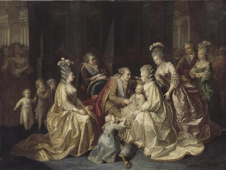 The Royal family around Louis Joseph, Dauphin of France, in 1782From the Juigné collections, acquired in 1995 by the Société des amis de Versailles.